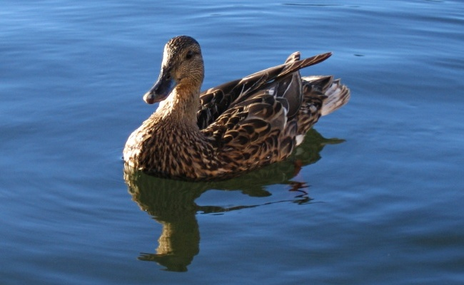 A female mallard (duck) on the Willamette River, in Oregon City, Oregon. Taken on Jul. 31st 2005 by User:Chromakode